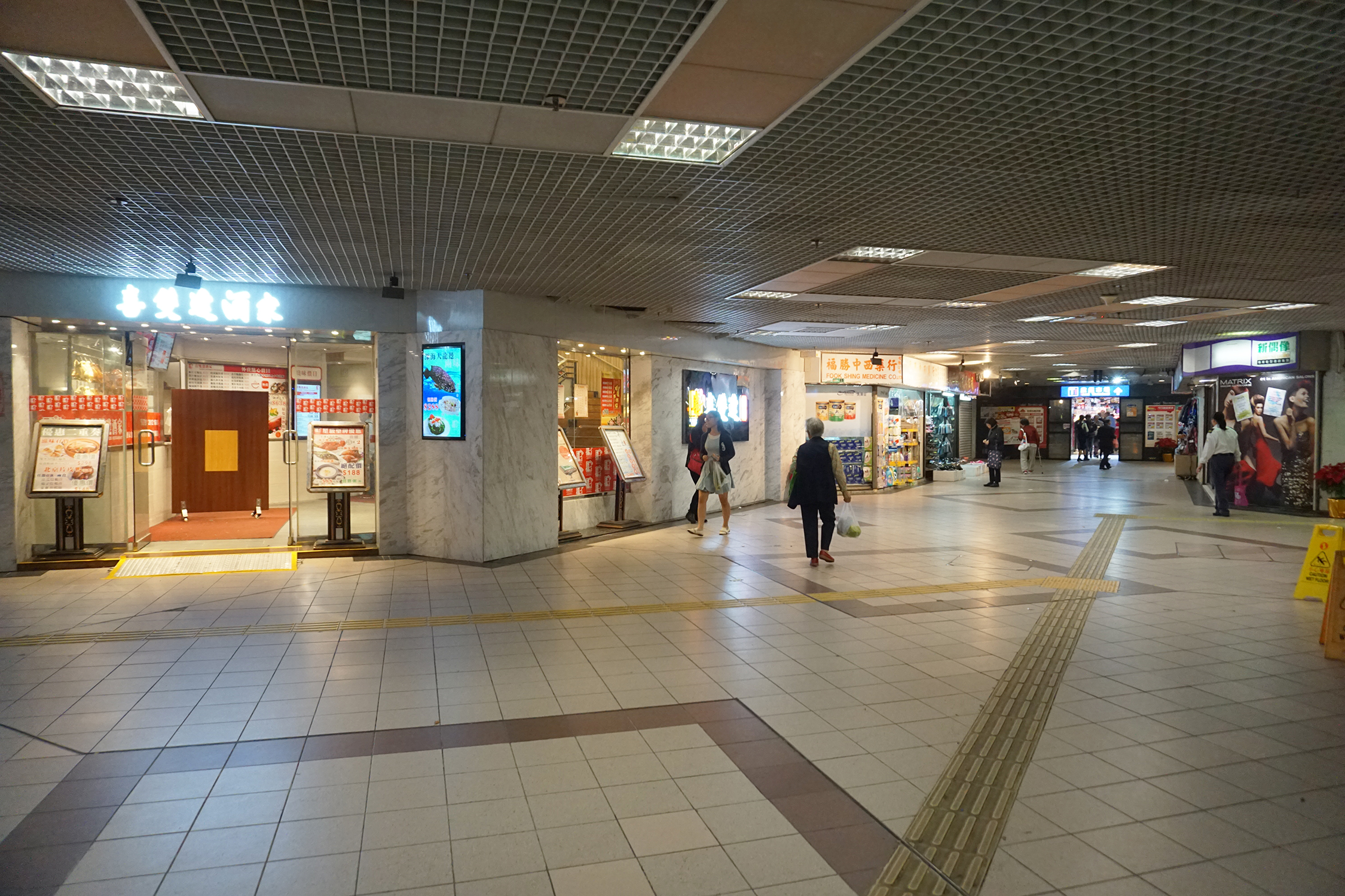 Kai Yip Estate in Kowloon Bay, Hong Kong.